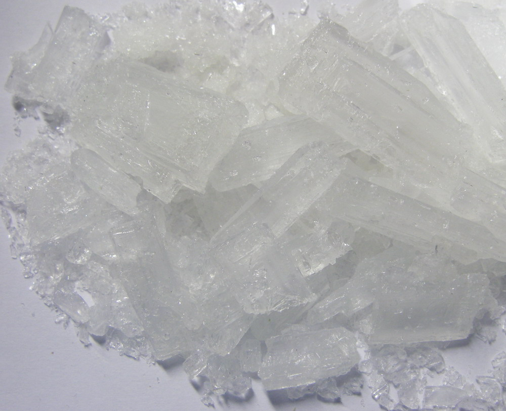 Lead(II)Acetate trihydrate crystals prepared from lead carbonate and aqueous acetic acid and crystallized through room temperature evaporation of the solution.